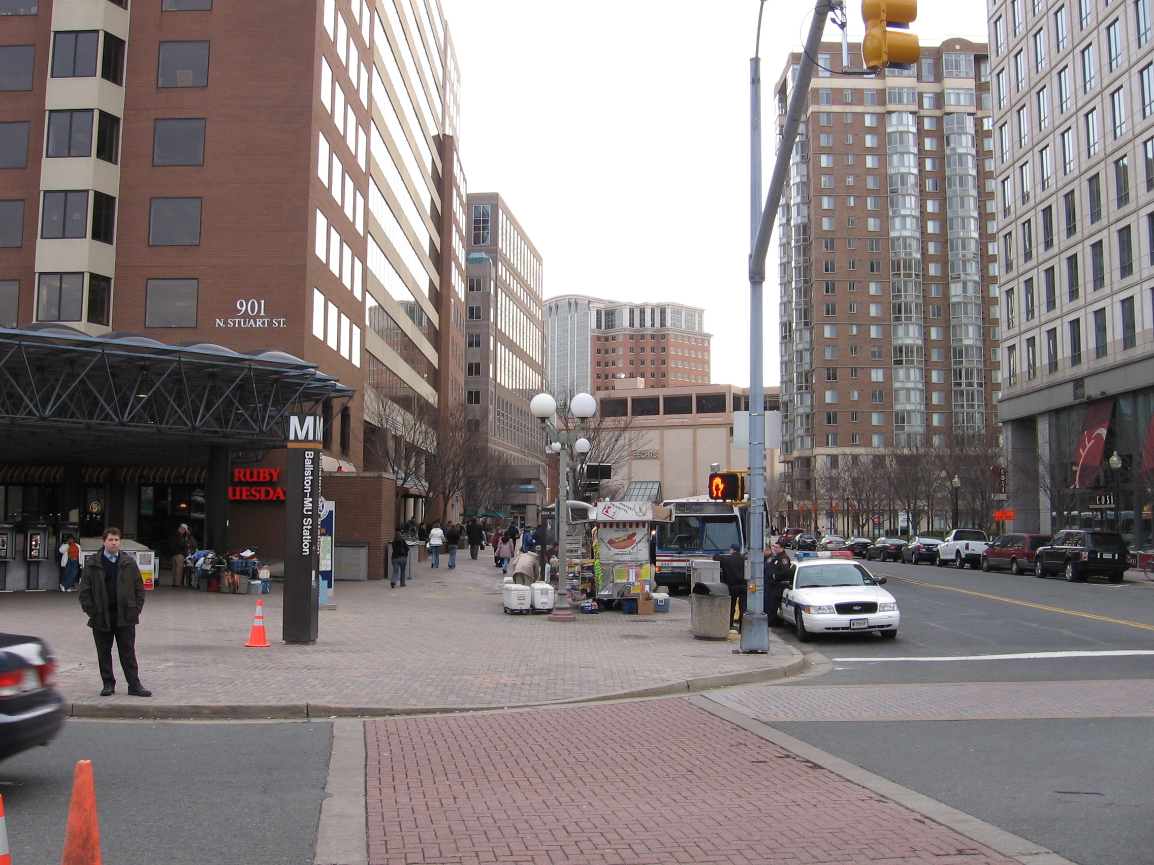 This is a photograph I took in Ballston in Arlington County in 2006.